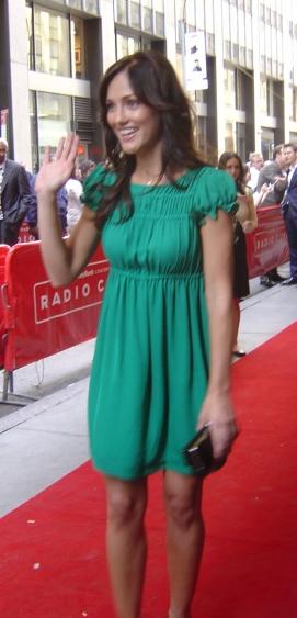 Minka Kelly at 2007 NBC Upfronts